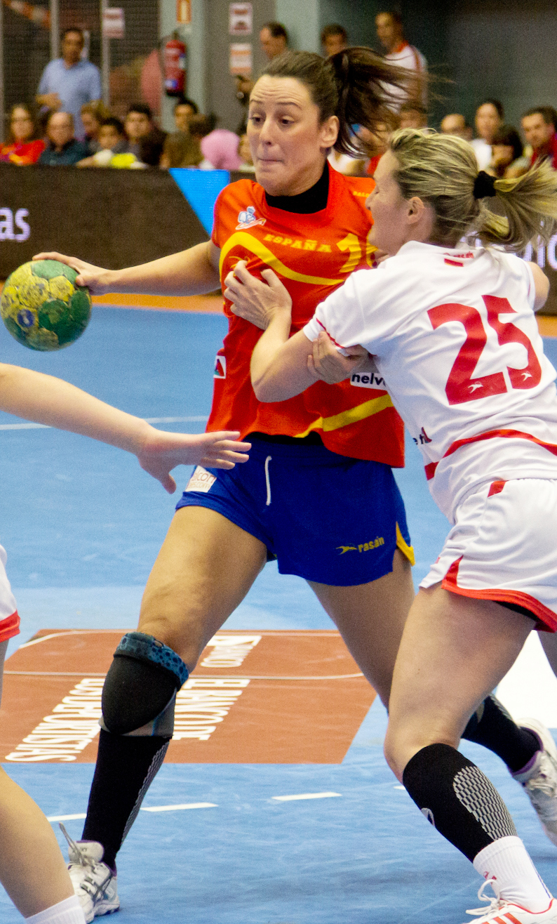 Handball All Star Game 2013, held in San Sebastián de los Reyes, Madrid, Spain.